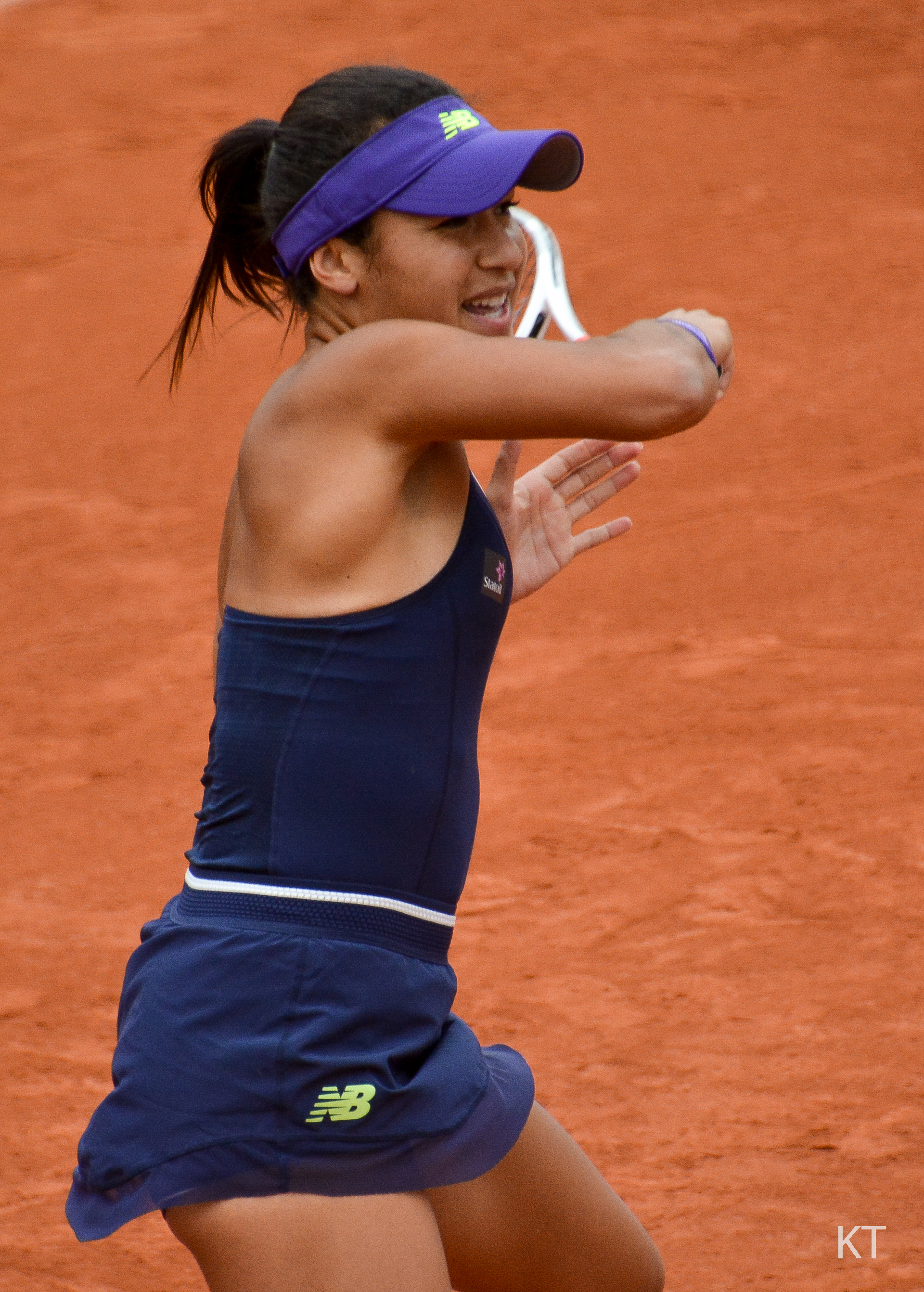 Heather Watson v Nicole Gibbs (R1) on Court 3. Day 2 of Roland Garros 2016.